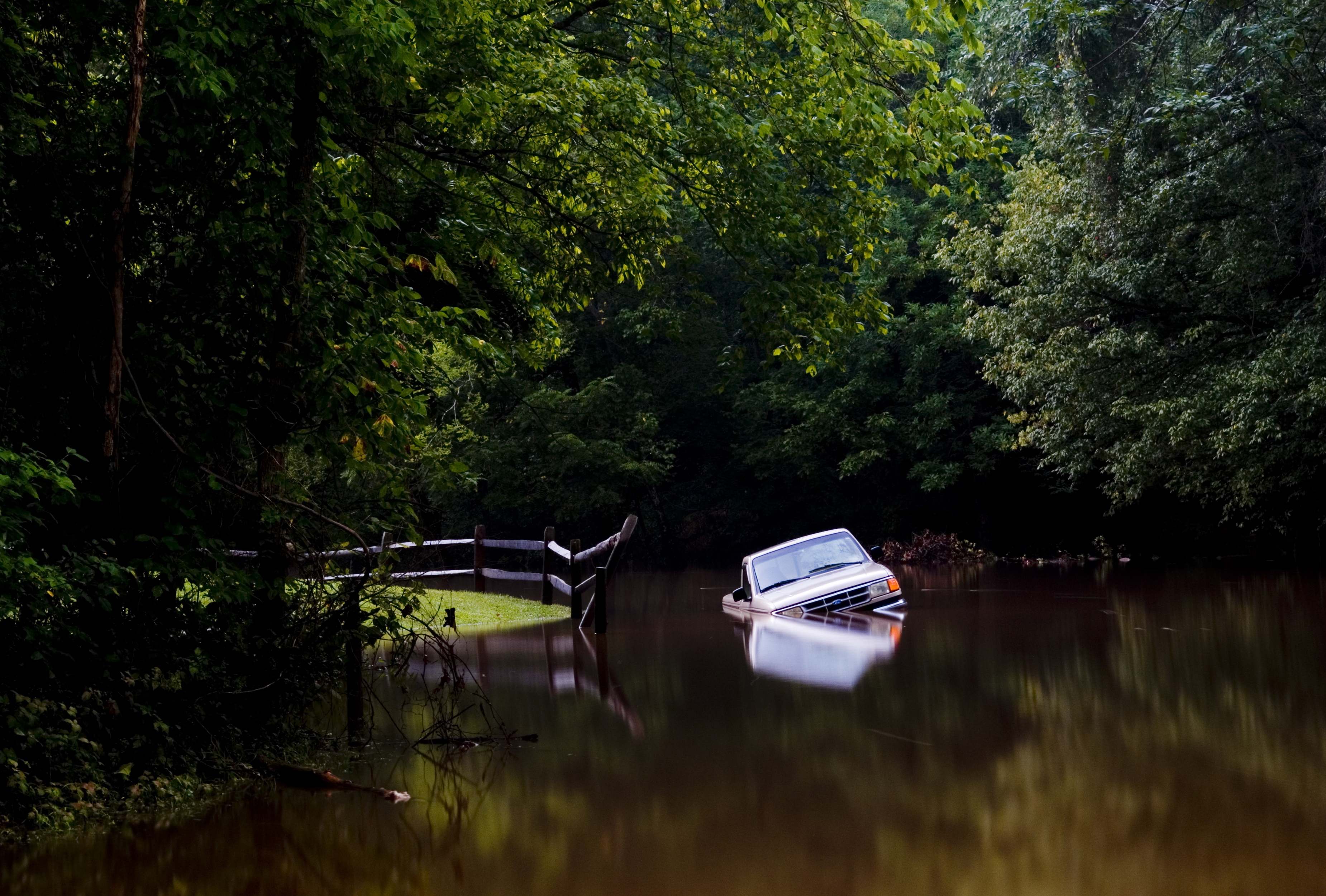 A flooded road at the Eno River Park in Durham, NC after Hurricane Hanna, September 6, 2008